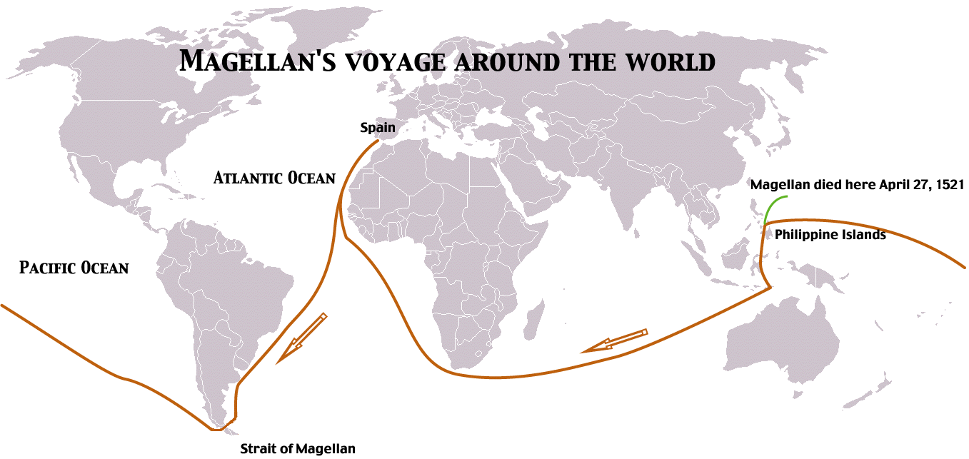 Map of Ferdinand Magellan's voyage around the world